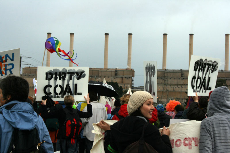 hazelwood2009